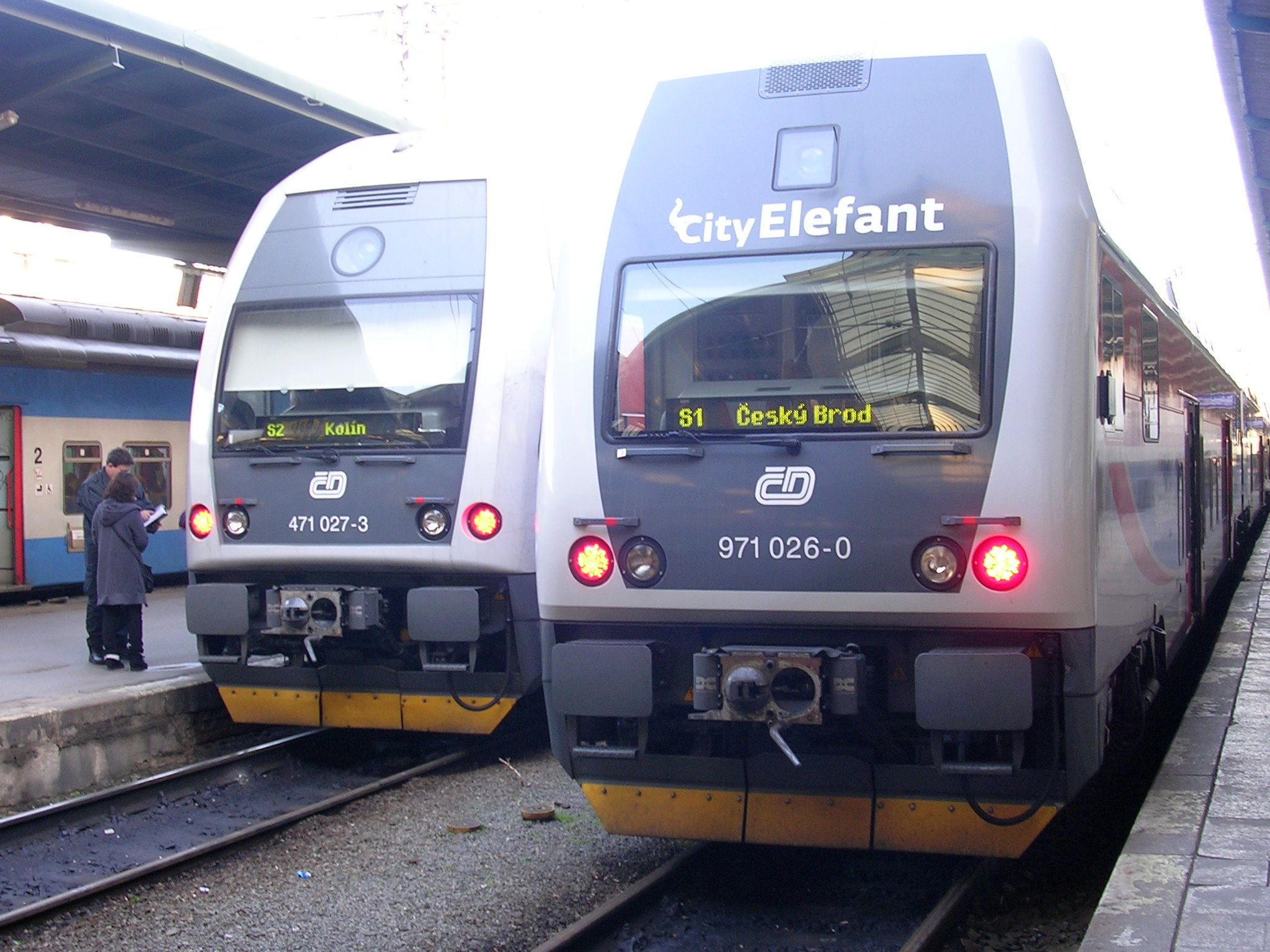 Trains in Prague, the Czech Republic.